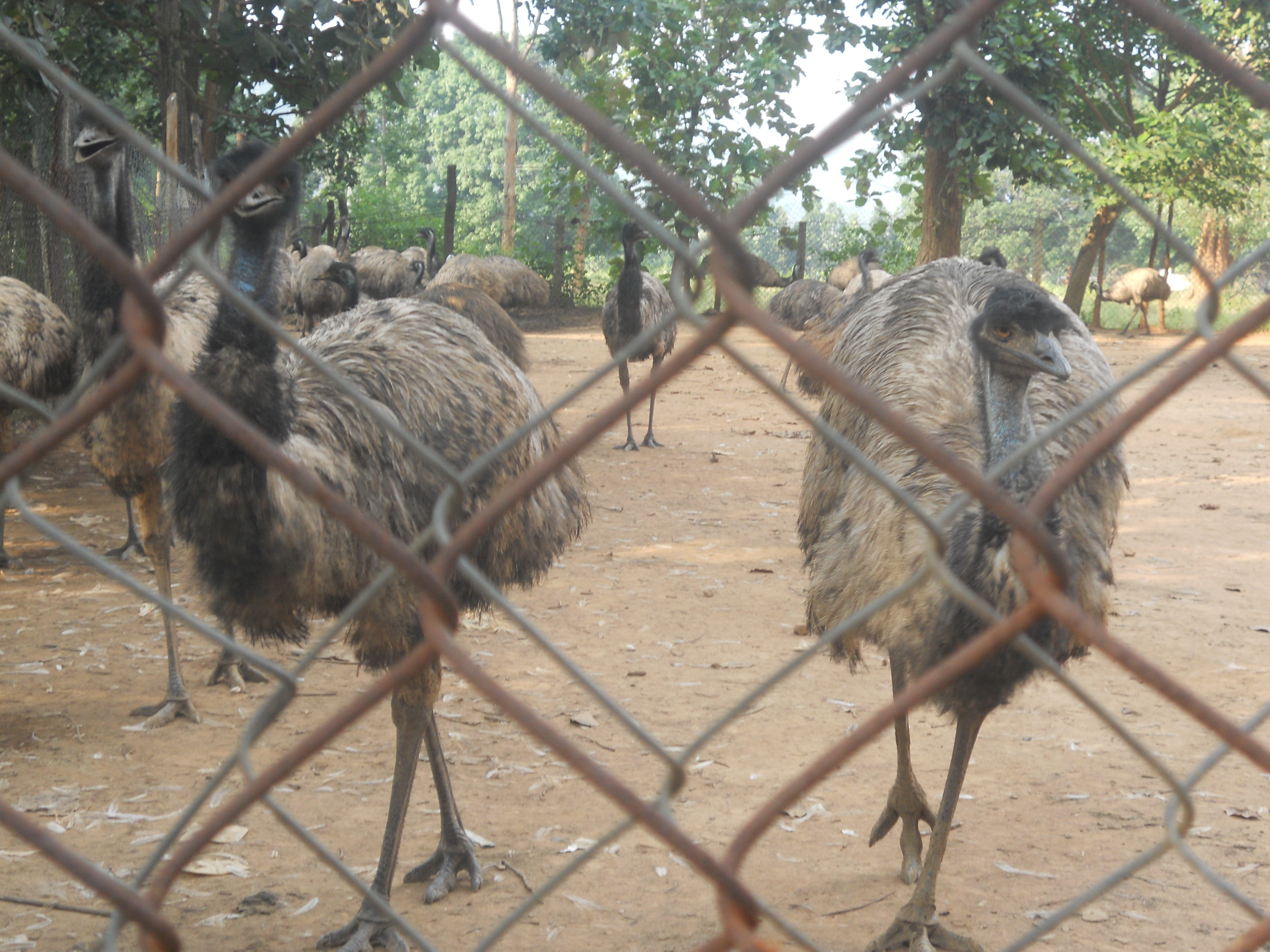 Emu farm , Daringbari, Orissa